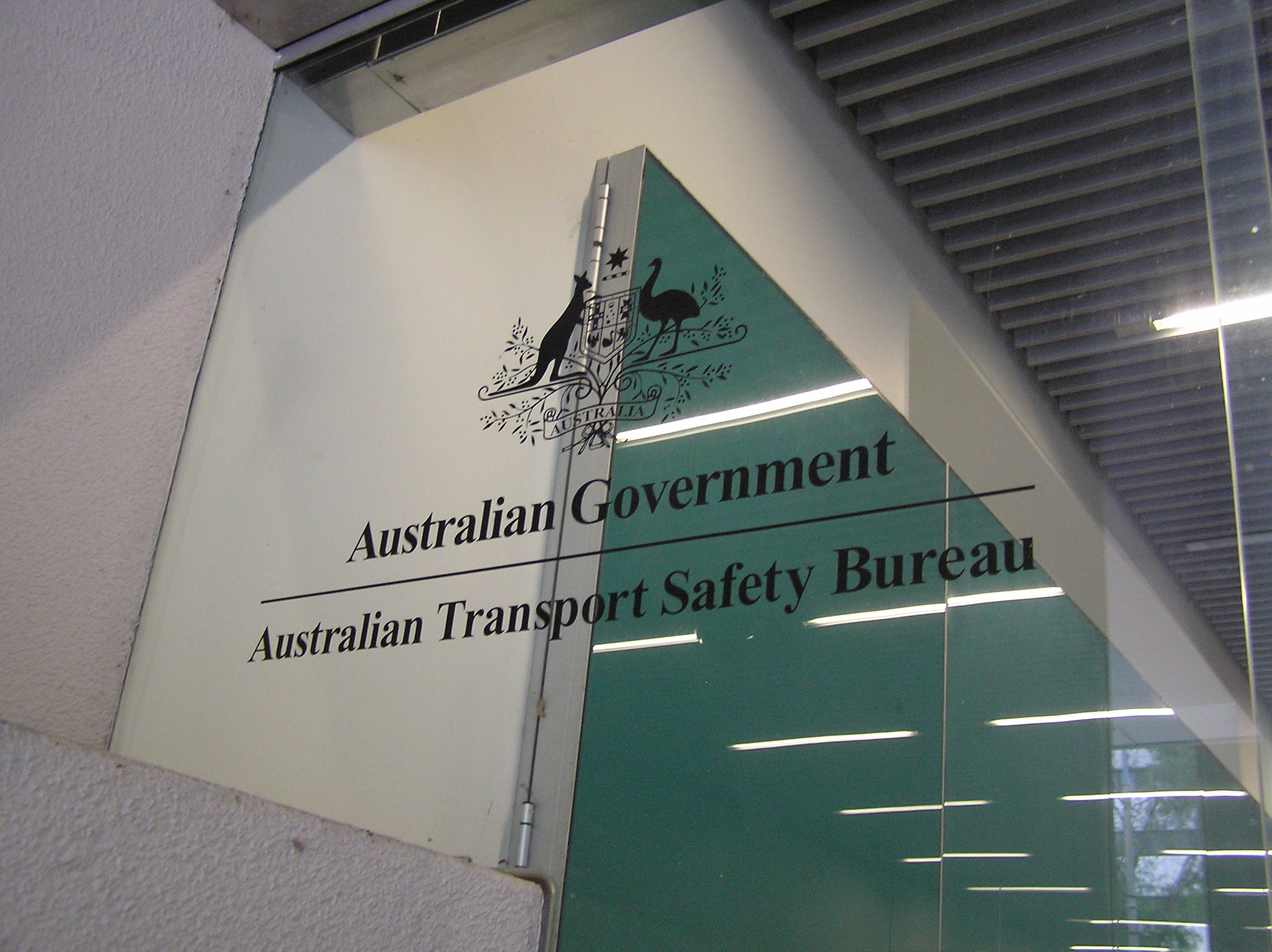 Australian Transport Safety Bureau logo found on window at 62 Northbourne Avenue. Original logo is PD-textlogo, coat of arms is PD-Australia.